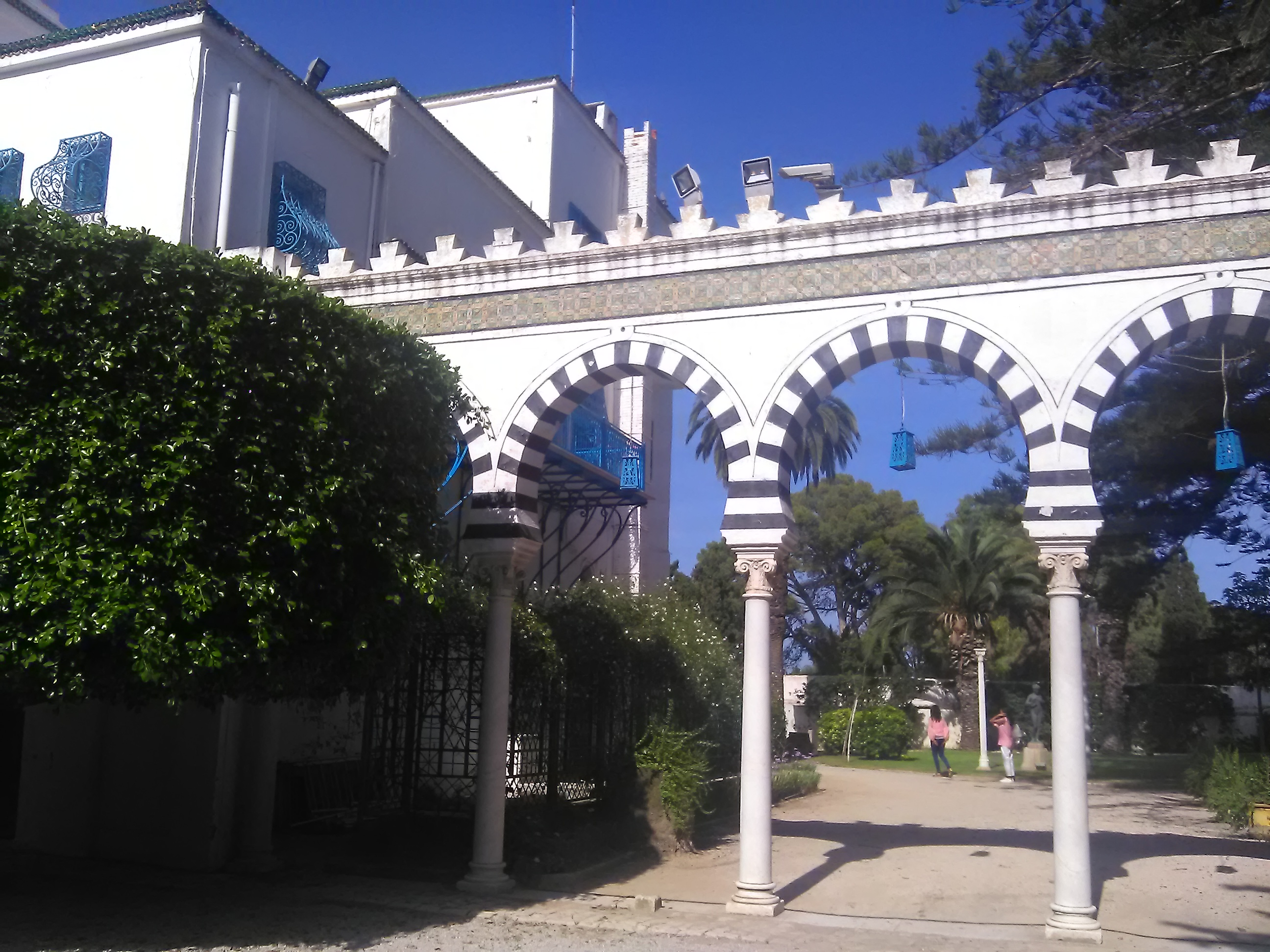 French ambassador's residence in Tunis